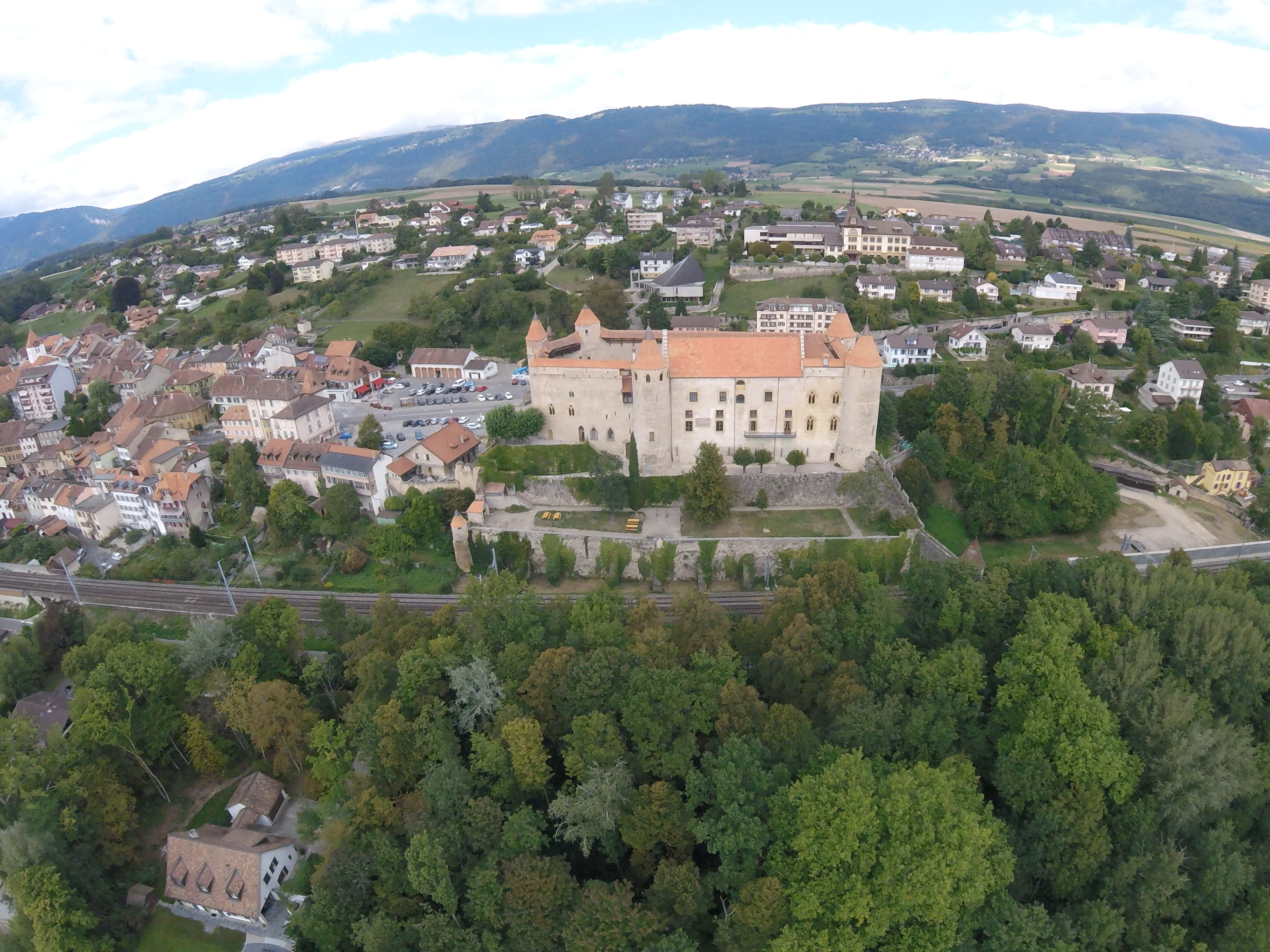 Grandson, a municipality in the district of Jura-Nord Vaudois in the canton of Vaud in Switzerland, aerial photo